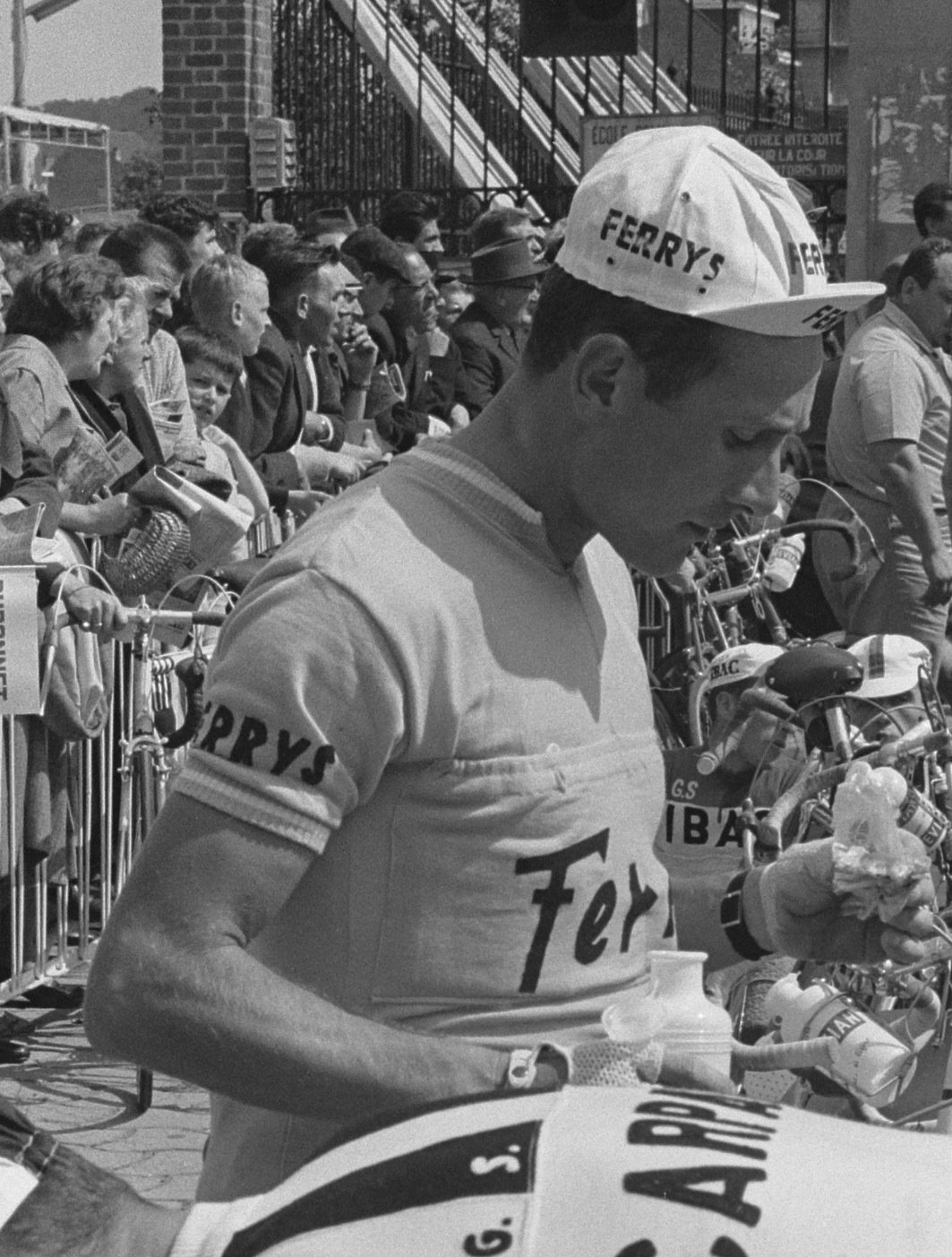 Carpano and Ferrys riders at the 1963 Tour de France.